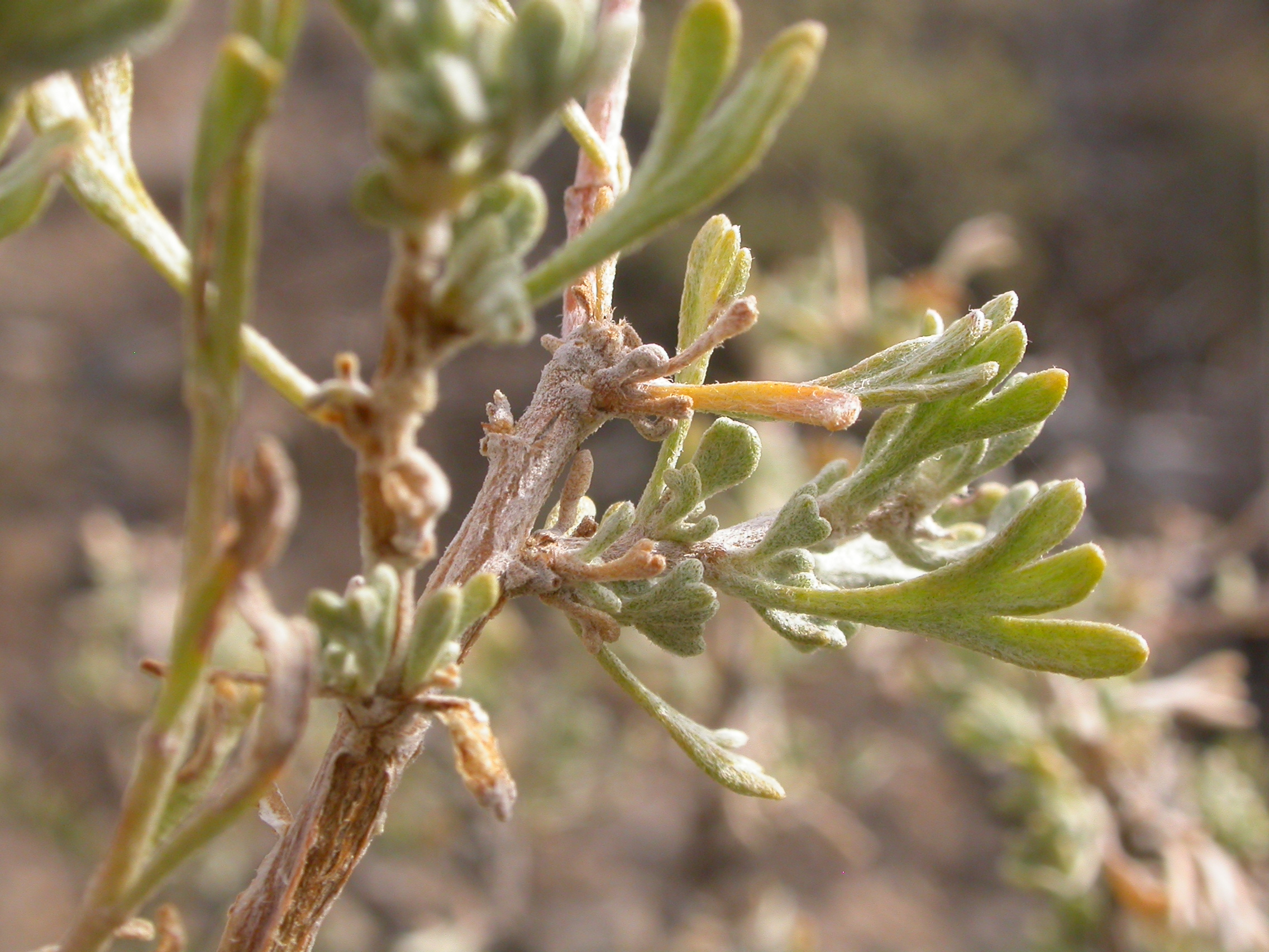 Low sagebrush dominates the slopes of the hill that lies just to the northwest of the junction of Hwy 33 and 26, east of Arco Idaho.